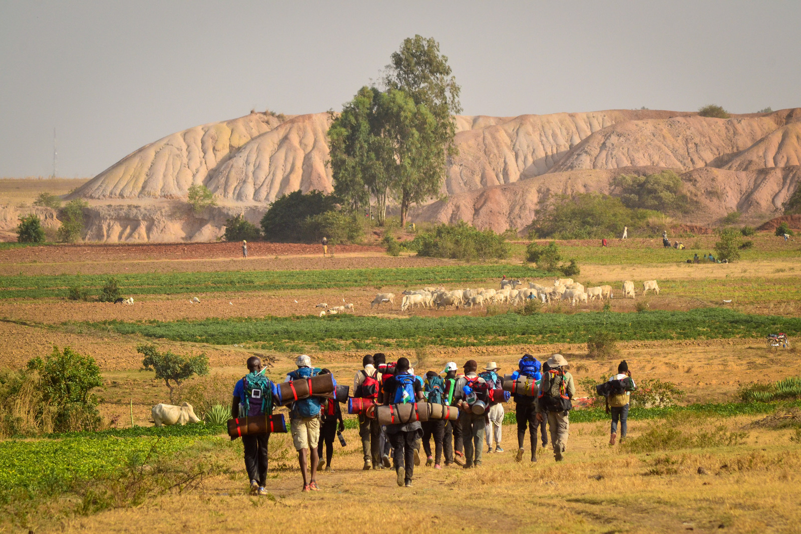 Backpackers traveling on the Jos Plateau This is an image with the theme "Africa on the Move or Transport" from: Nigeria